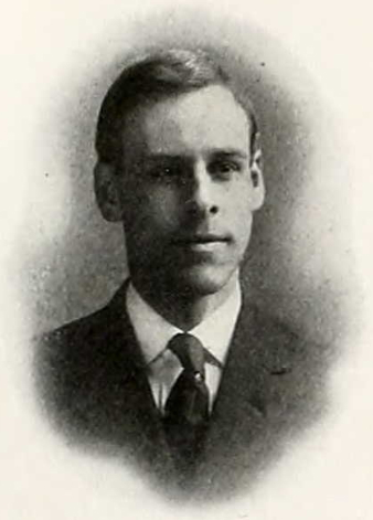 Jonathan Clark Rogers as depicted in his college yearbook in 1909.